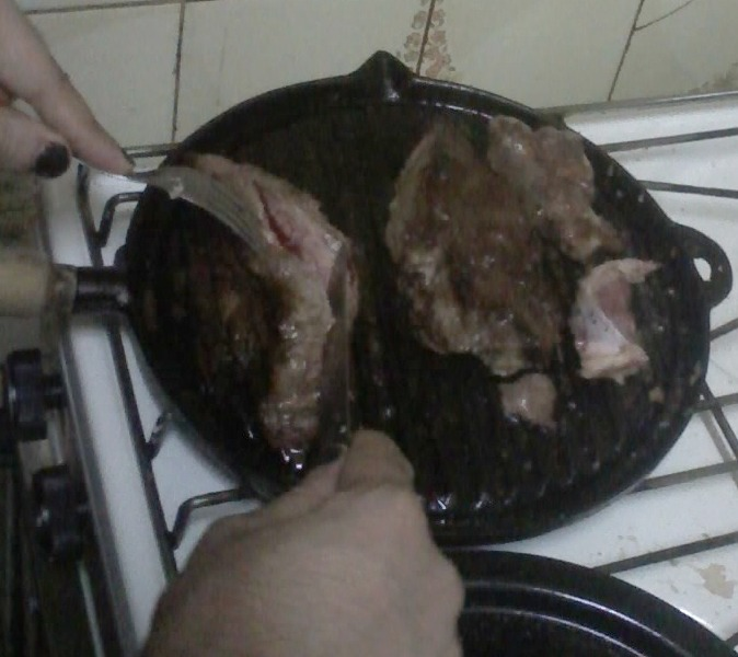 argentine steak